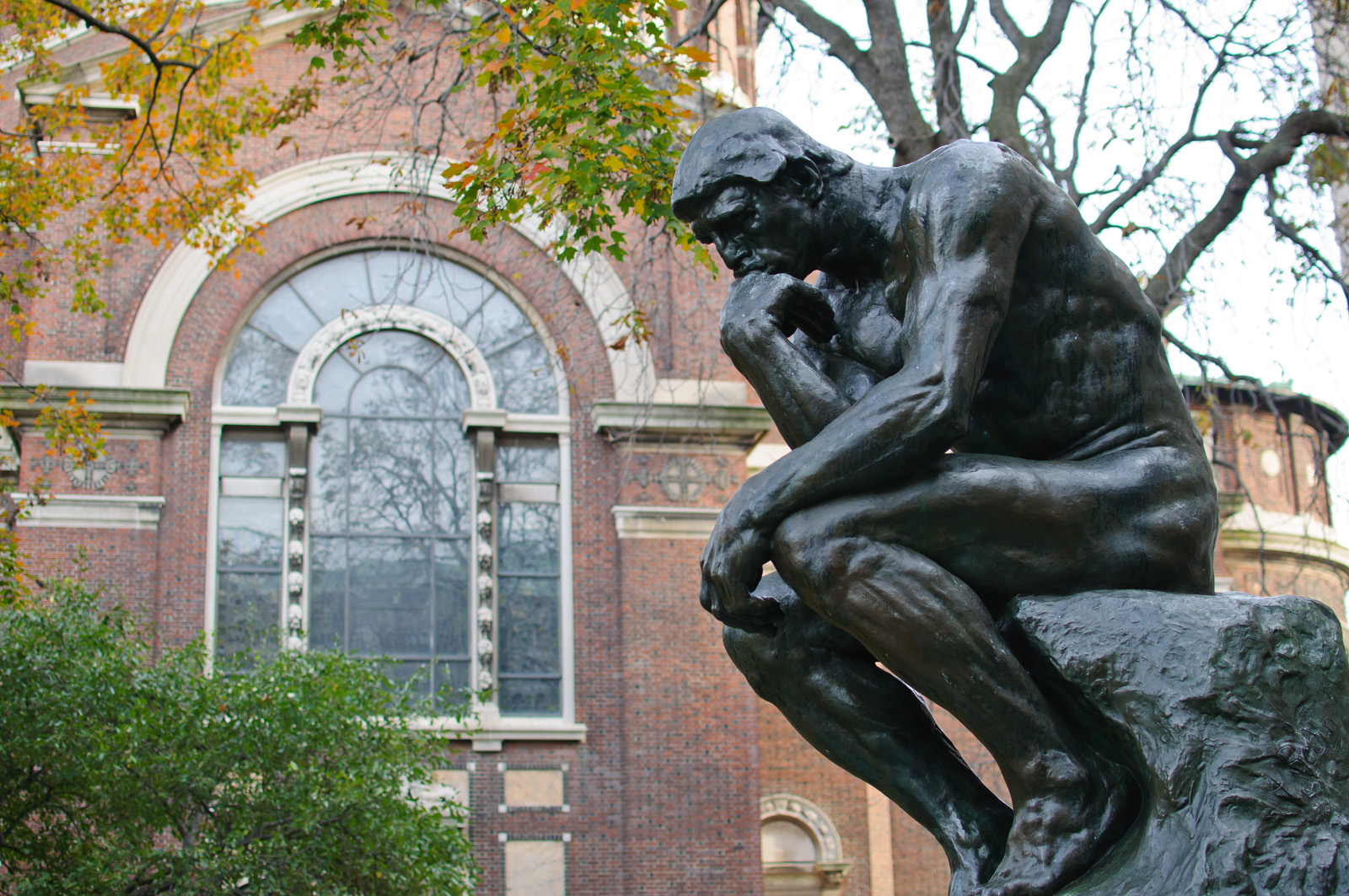 Auguste Rodin's famous sculpture, Le Penseur (The Thinker), has a few copies in New York City, and while one of them sits at the Metropolitan Museum of Art, the largest and most photogenic copy is this one, on the Columbia University campus. It is located next to Maison Française, which is immediately to the east of Low Library. Columbia University is located in the Morningside Heights neighborhood of Manhattan, bordering Harlem to the north and east and Upper West Side to the south. The McKim, Meade, and White architectural team designed the current campus in the late 1890s, replacing older campuses further downtown. Columbia University is one of the eight members of the prestigious Ivy League; the other seven, all in the Northeastern US, are Dartmouth, Harvard, Brown, Yale, Cornell, Princeton, and Pennsylvania.